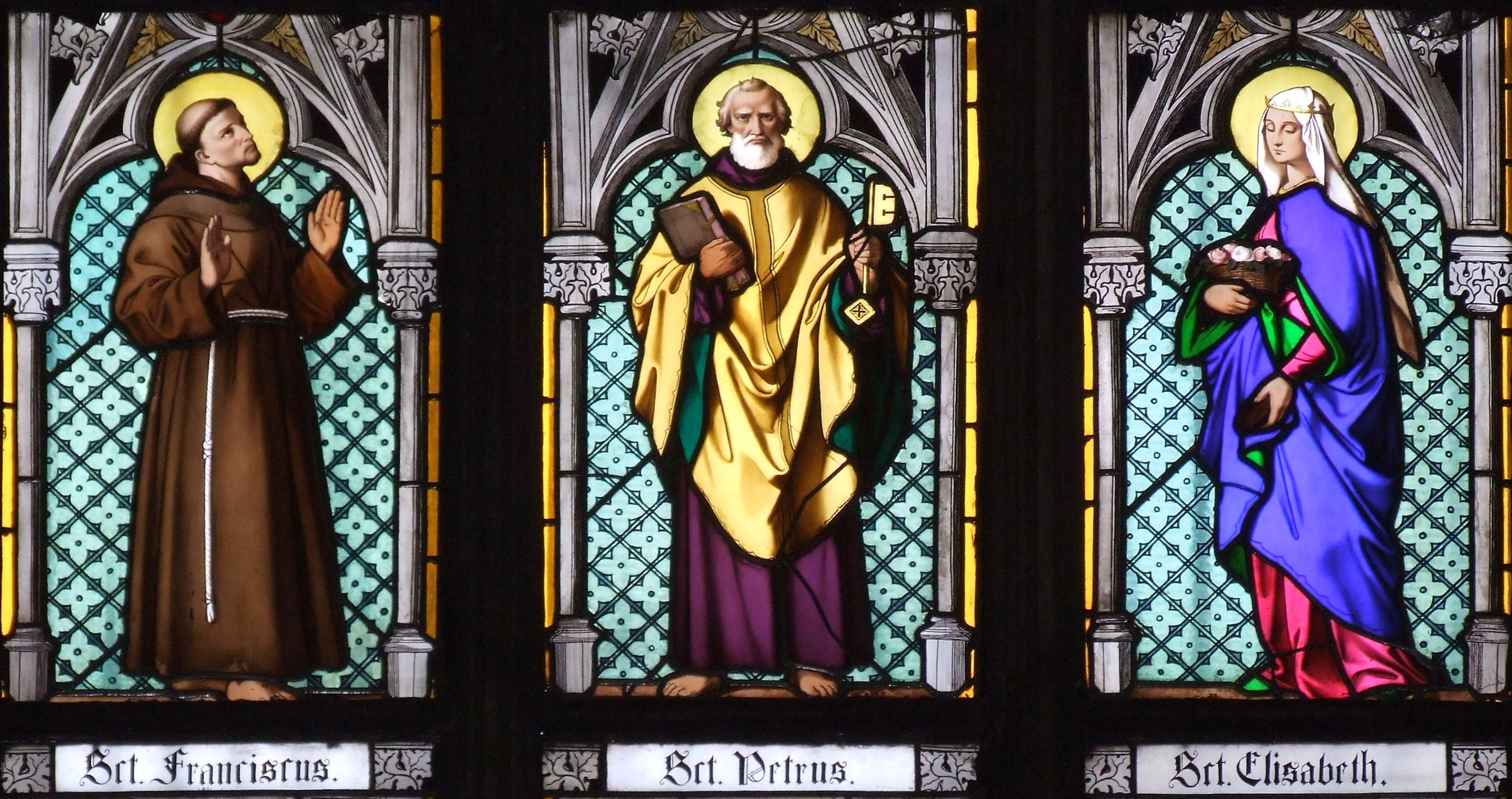 Part of stained glass windows in St. Vitus Cathedral, Prague